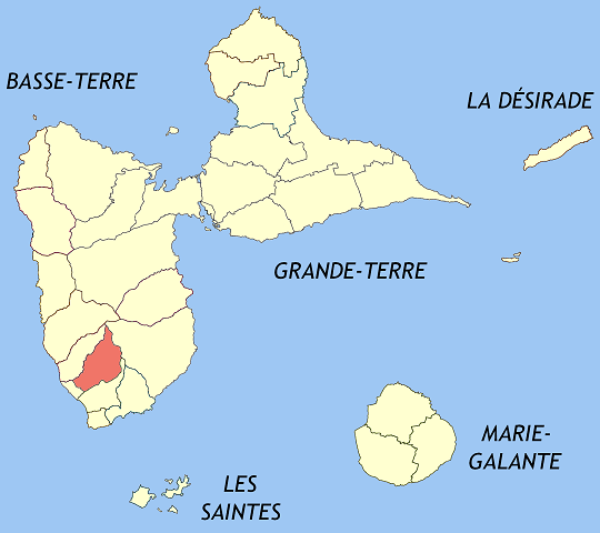 Location of Saint-Claude within Guadeloupe